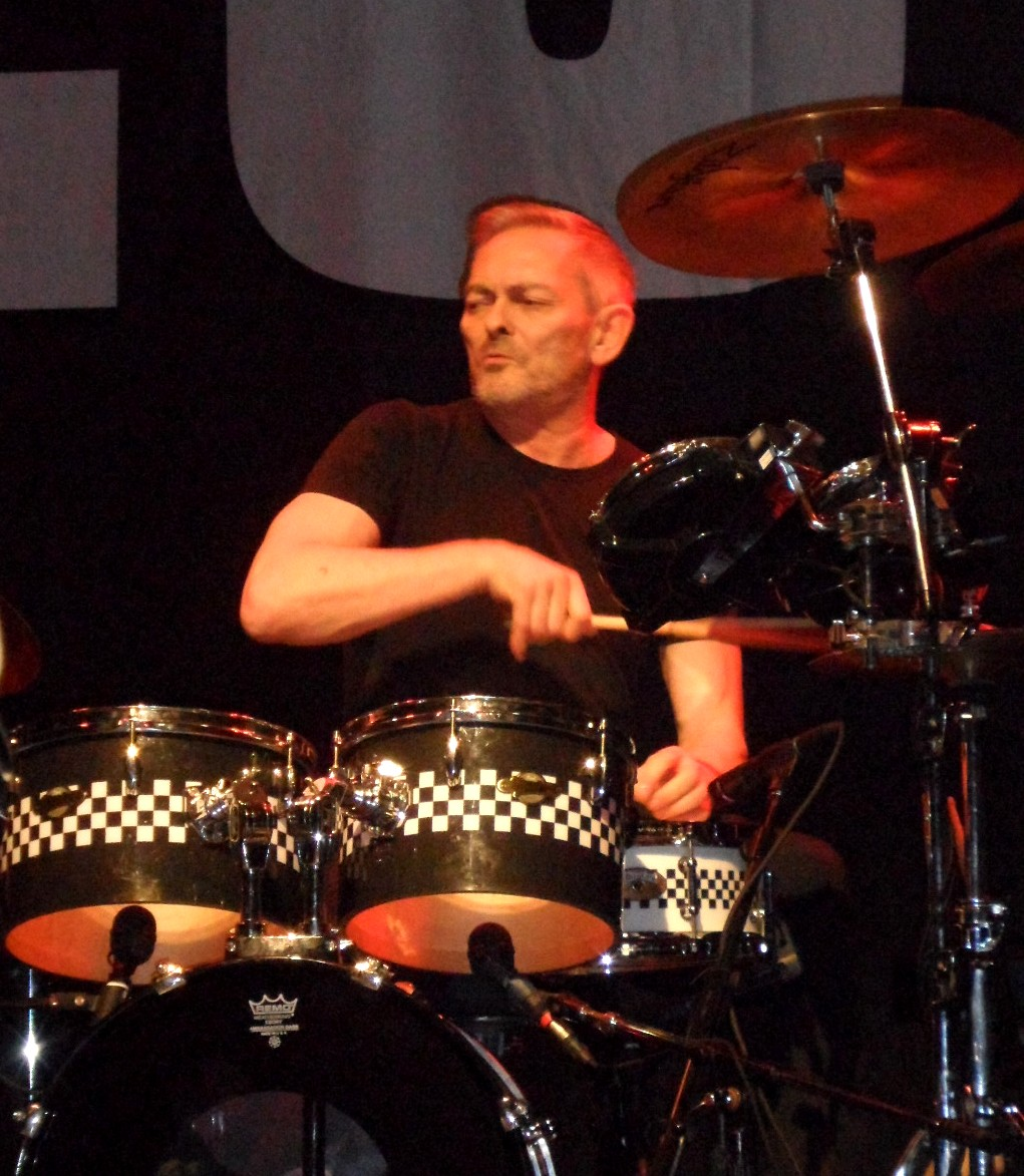 Performing with The Specials at the Vic Theatre in Chicago, IL March 11, 2013